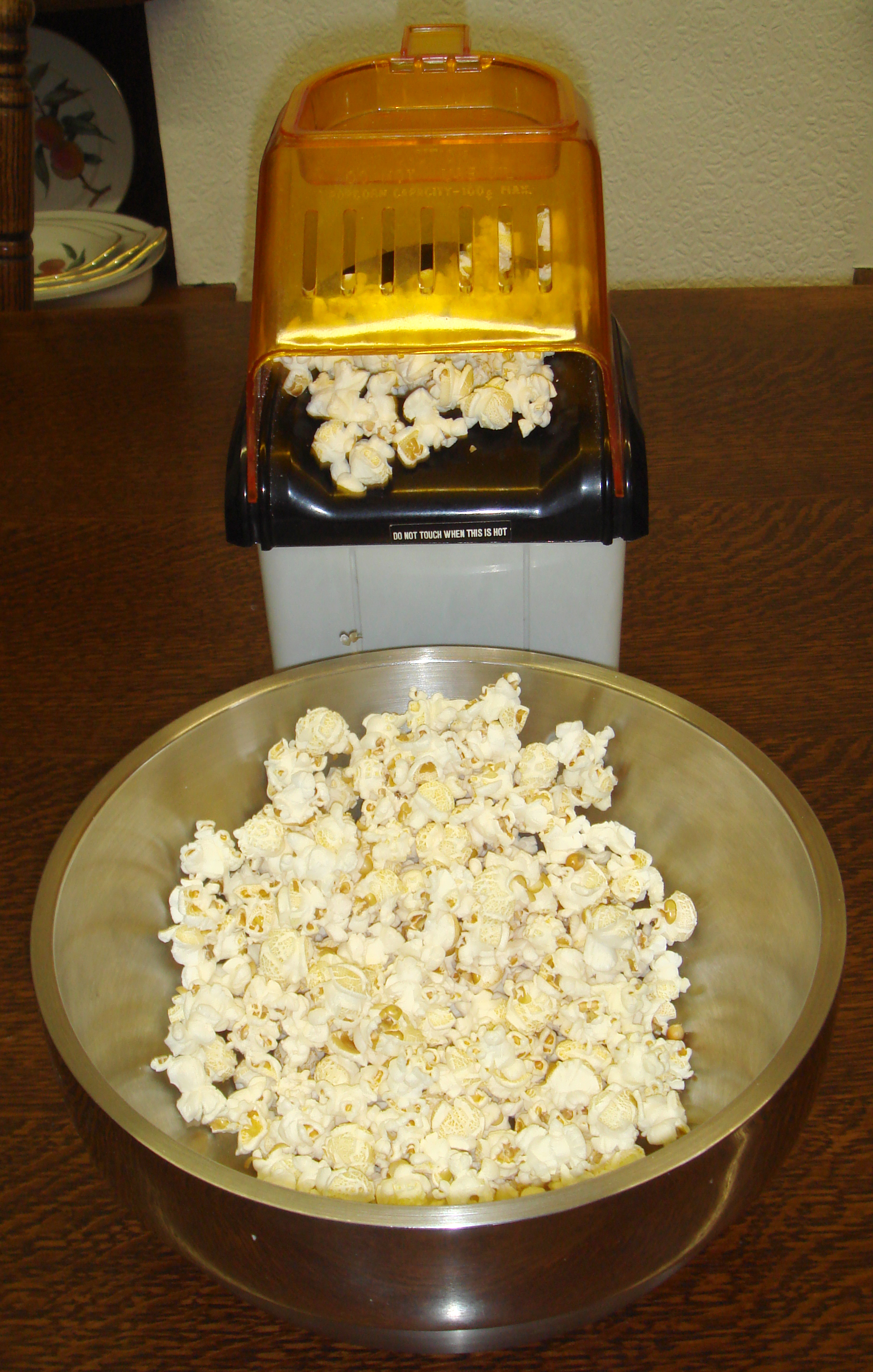 cropped, histogram adjusted from previous version